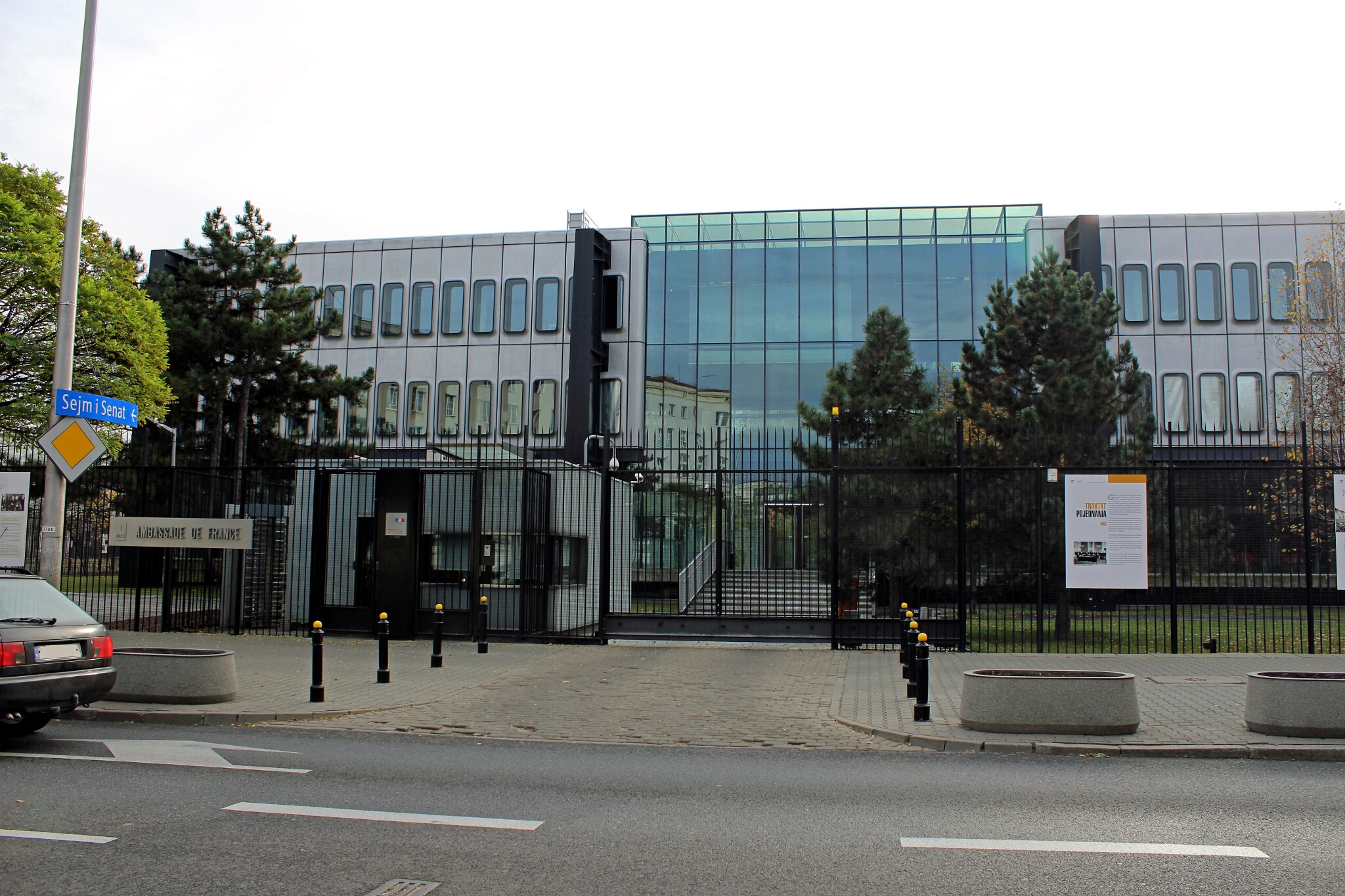 Wer dieses Bild benutzen möchte, der möge bitte den Link auf seiner Seite einbinden. If you want to use this picture, please implement the link on the website containing the picture.